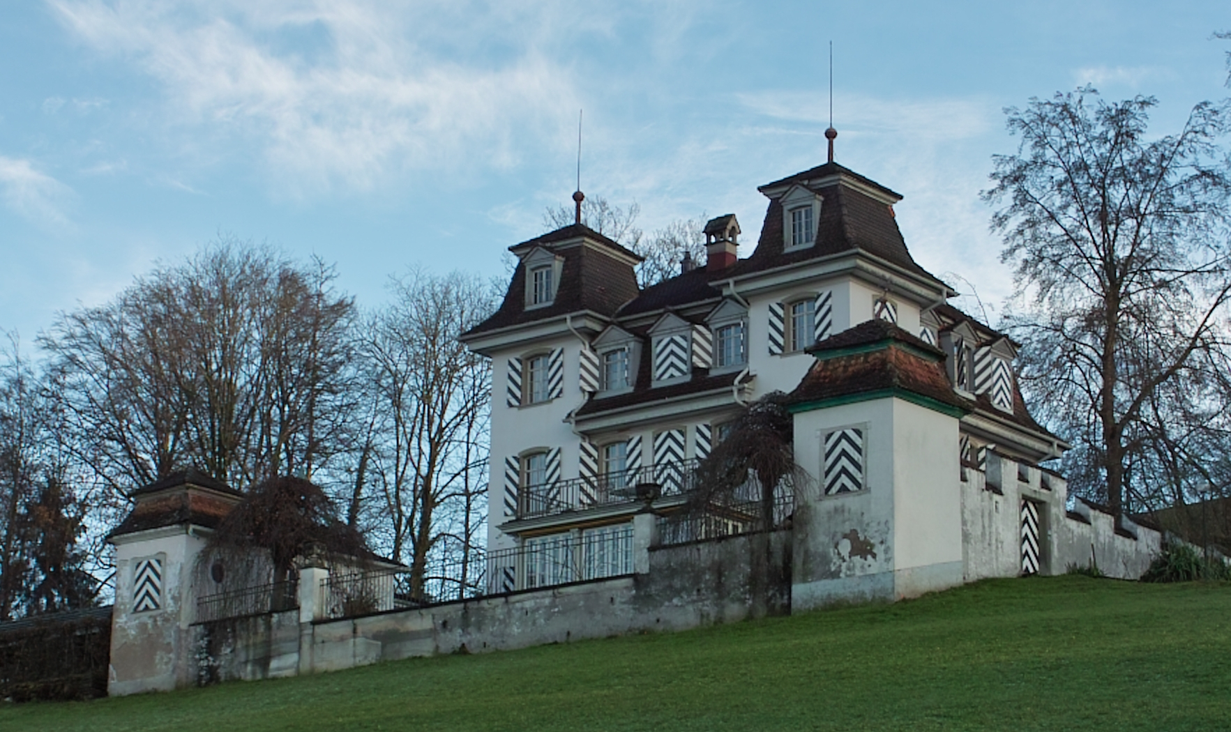 Hünenberg castle in Ebikon, canton of Lucerne, Switzerland.